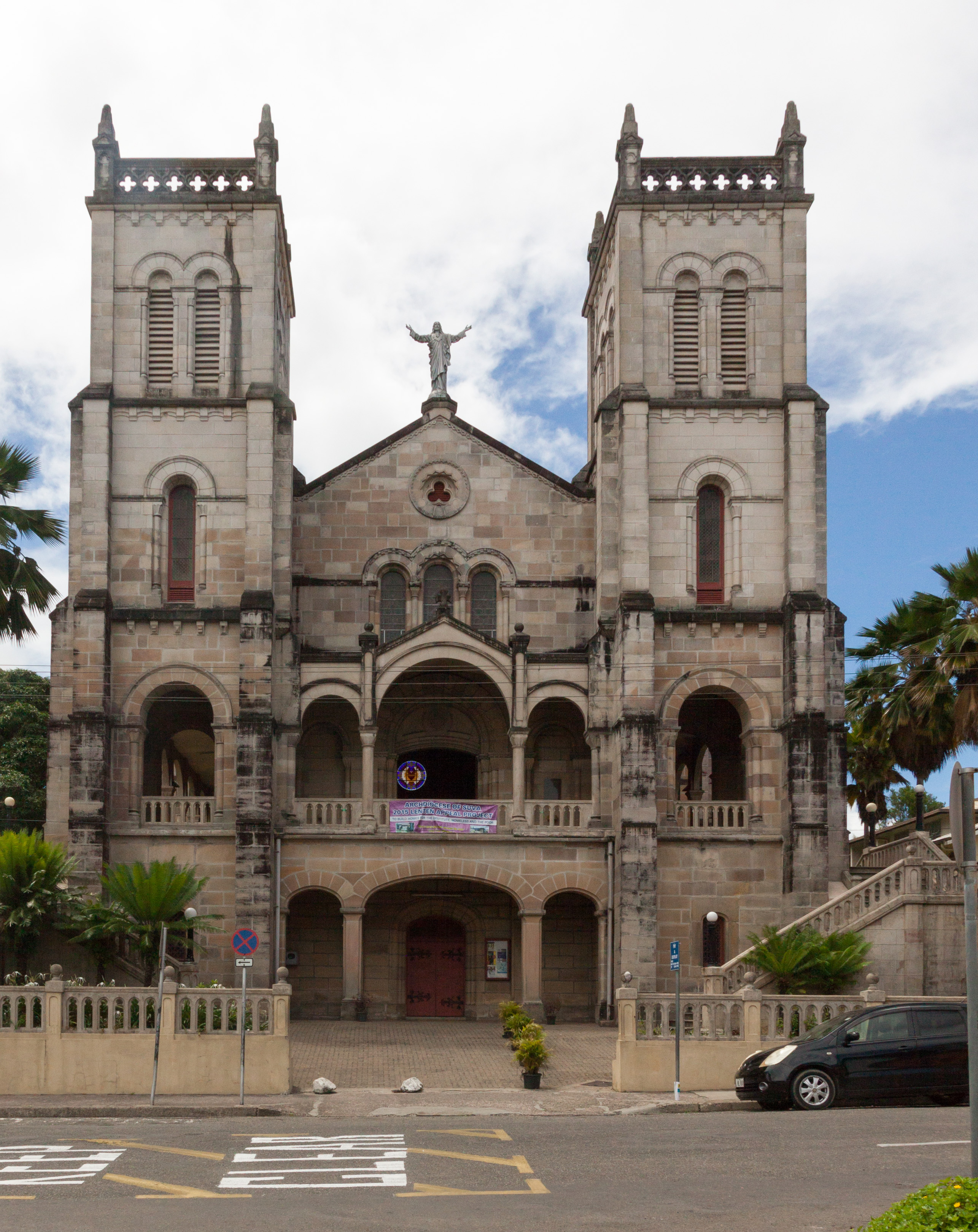 The Sacred Heart Cathedral (Suva)